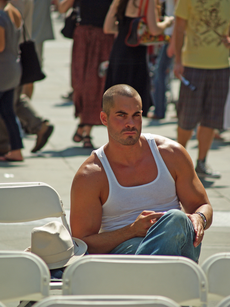 Man in a tank top style known as an 'A shirt', at the 2008 Brooklyn Book Festival.Photographer's blog post about this photograph.[1]